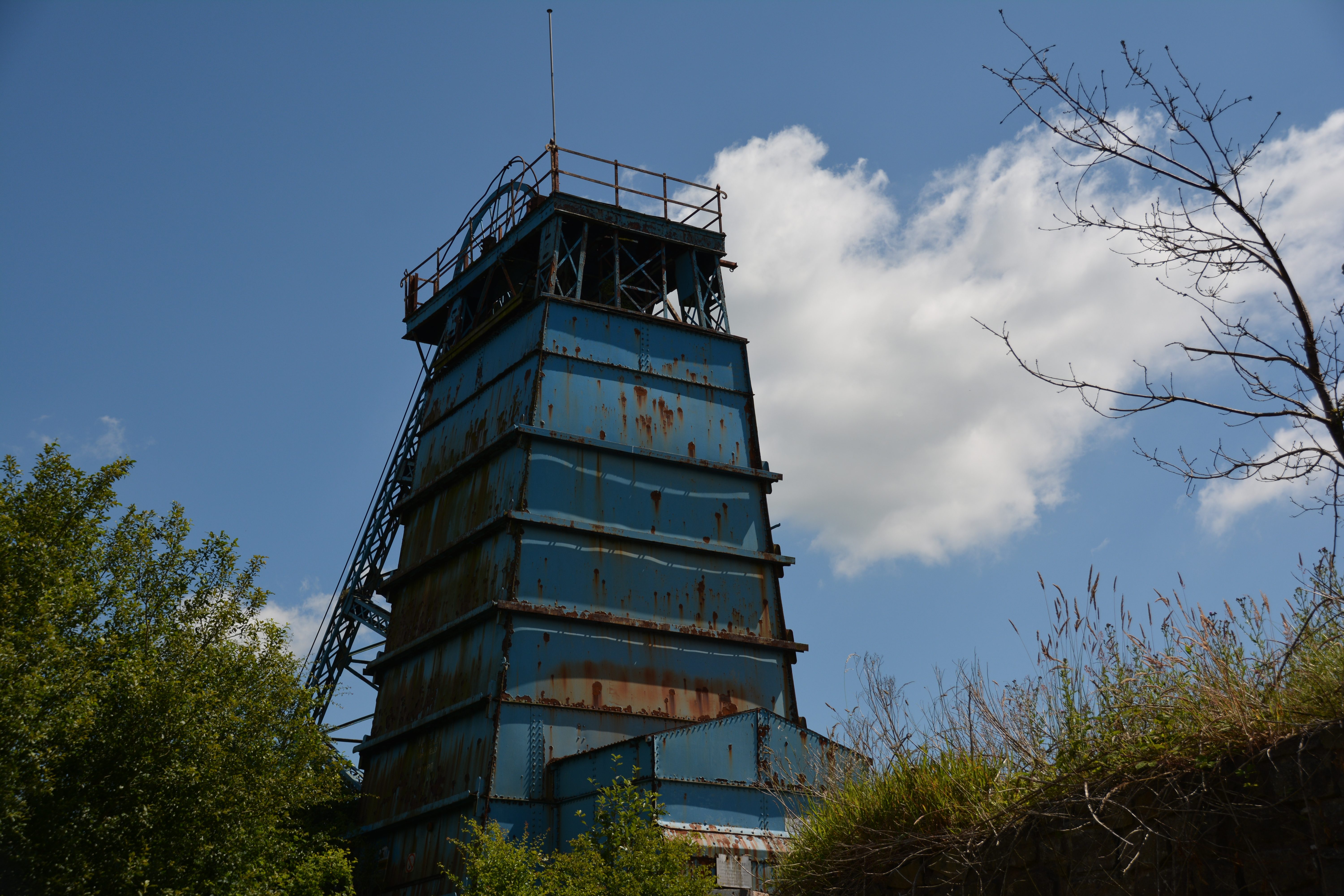 The Platt Shaft headgear at Chatterley Whitfield Colliery